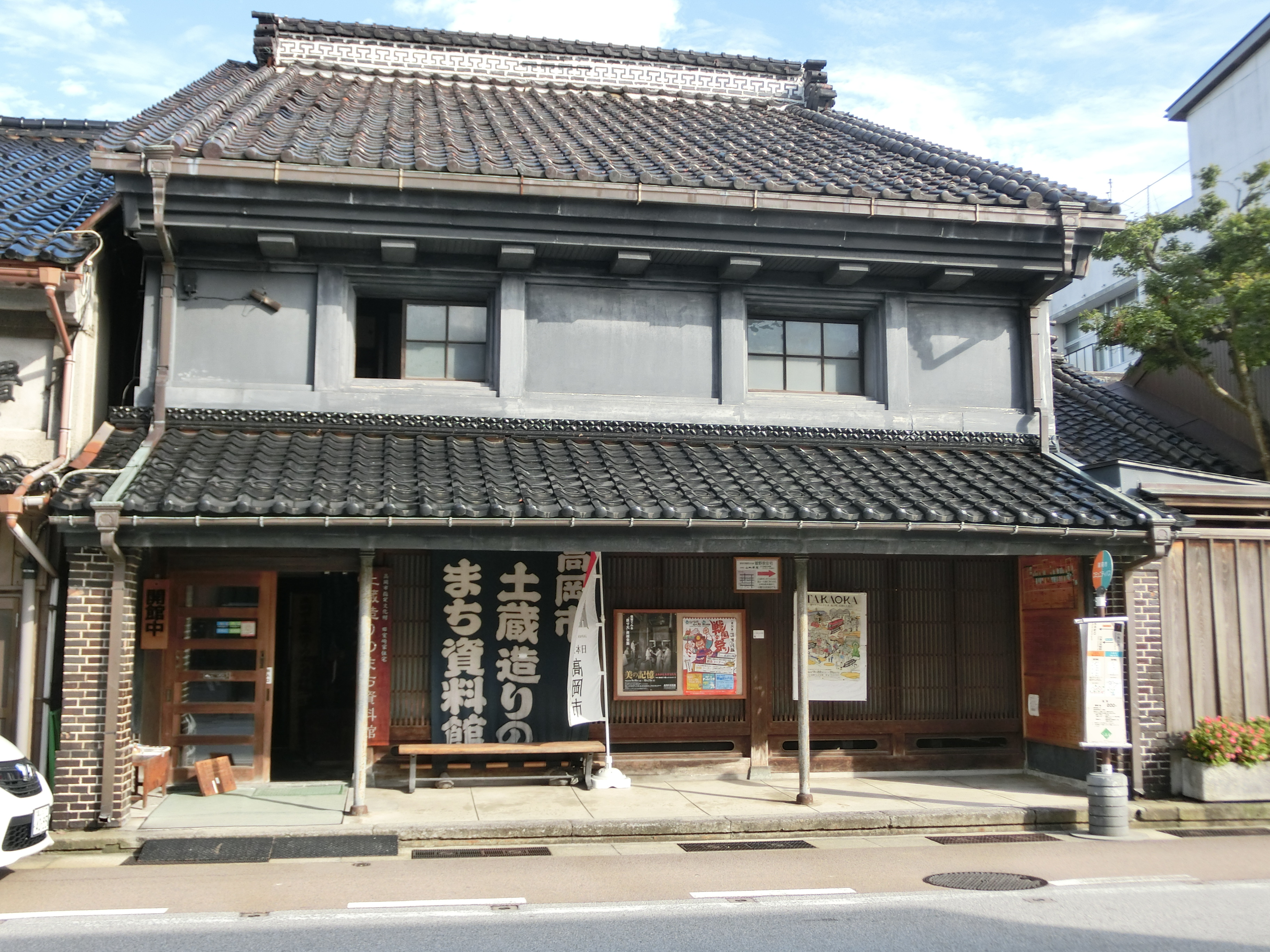 Dozodukuri no Machi Museum